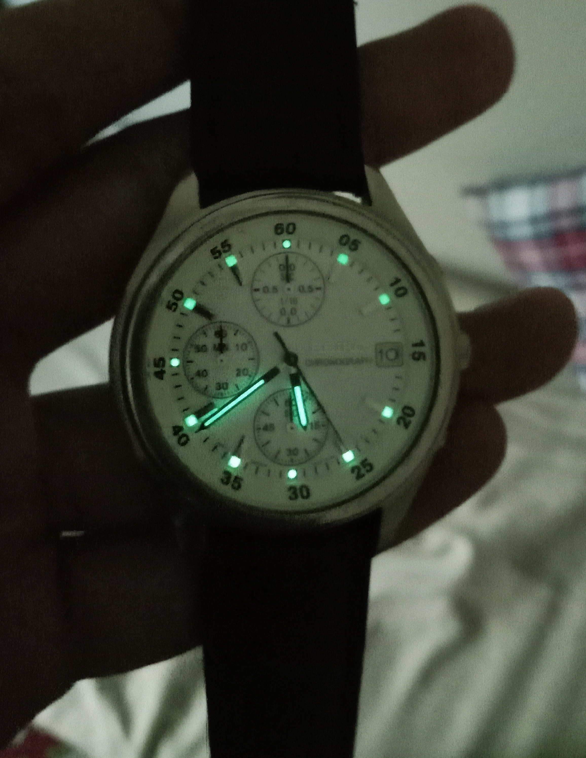 Seiko Chronograph watch. Ref V657-7108